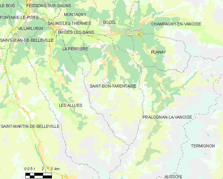 Map of French municipality